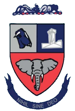 Coat of arms of Outjo, Namibia